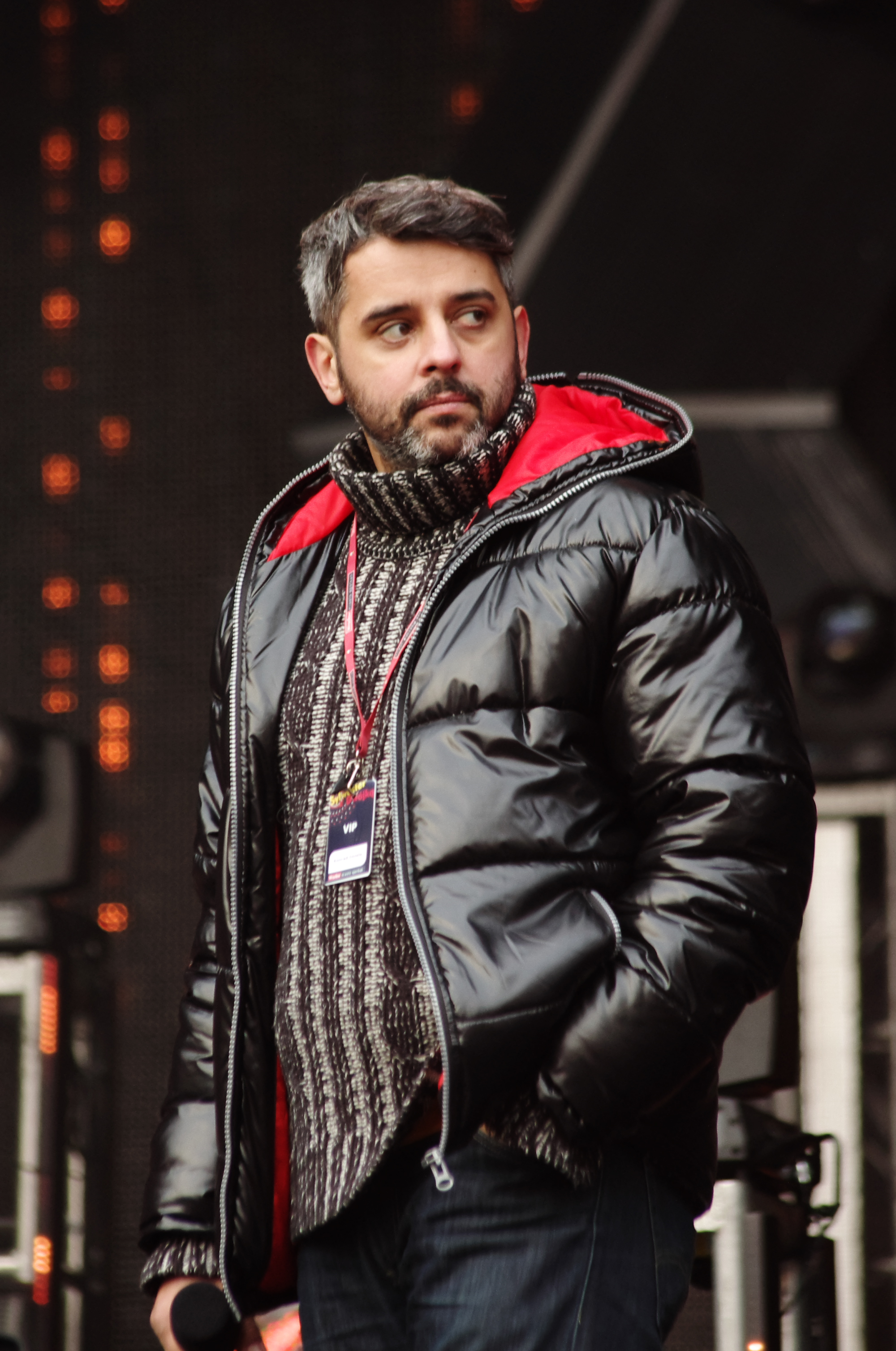 Konrad Imiela participating in rehersal before the "Sylwester z Dwójką" event on New Years Eve.